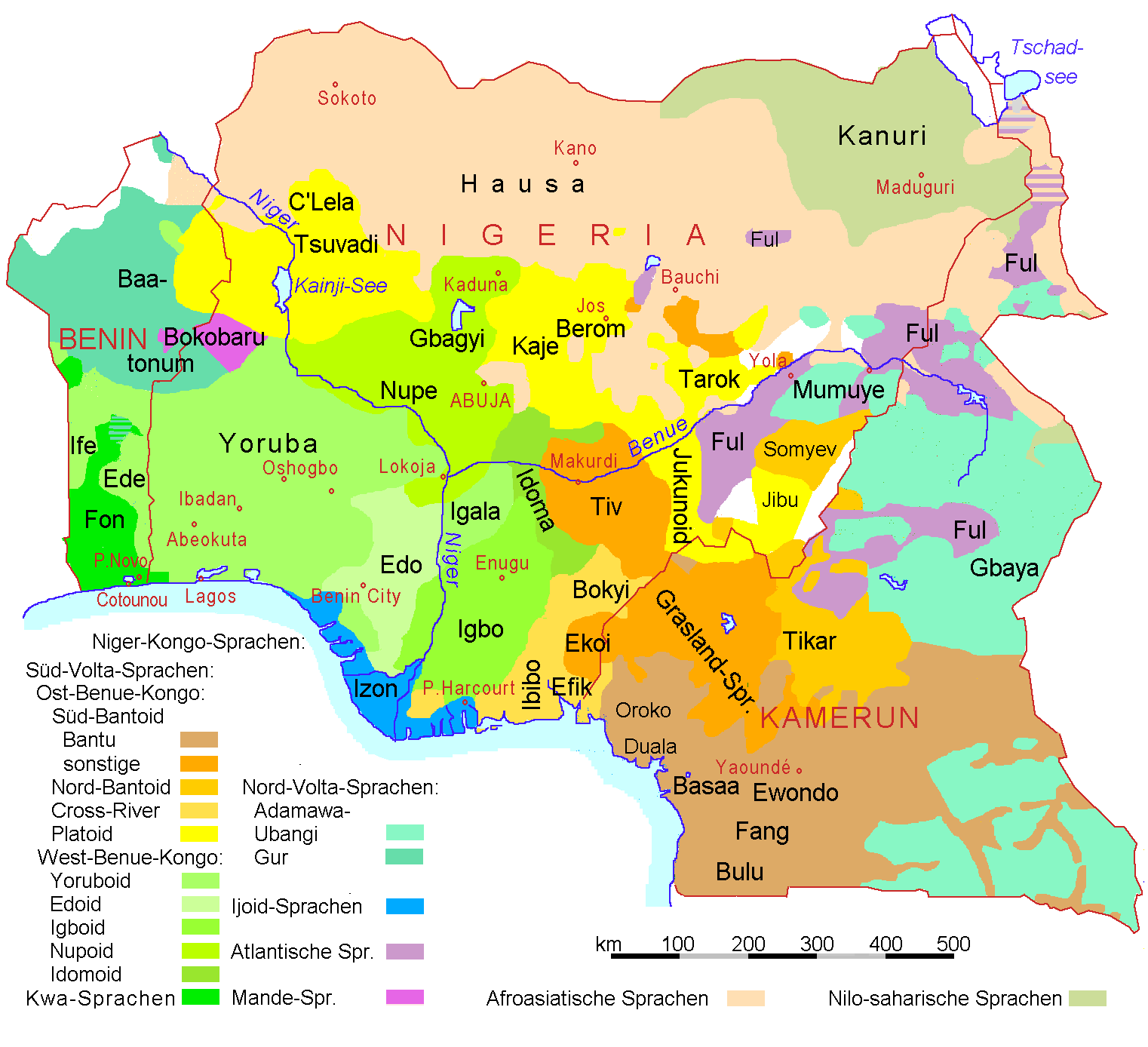 Map of languages of Nigeria, Cameroon, and Benin, showing subgrooups of the systematics of the Niger-Congo-family such as exmples of the Atlantic branch (Ful), the Mande branch (Bokobaru), the North-Volta-group of the Volta-Congo-branch (parts of Kru and of Adamawa-Ubangui), of the South-Volta Group most of West Benue, the whole Platoid, Cross River, and North Bantoid groups, all non-Bantu of the South Bantoid Group, and the northwestern edge of the Bantu area.